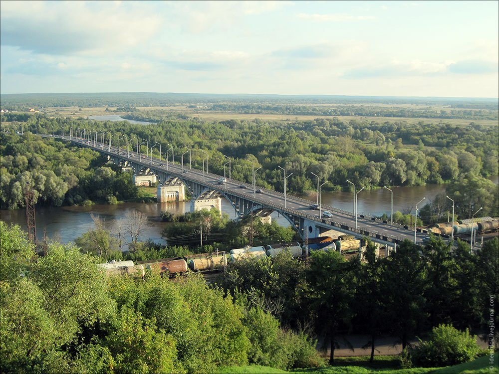 850 Years Anniversary Bridge across Klyazma river. Vladimir, Russia